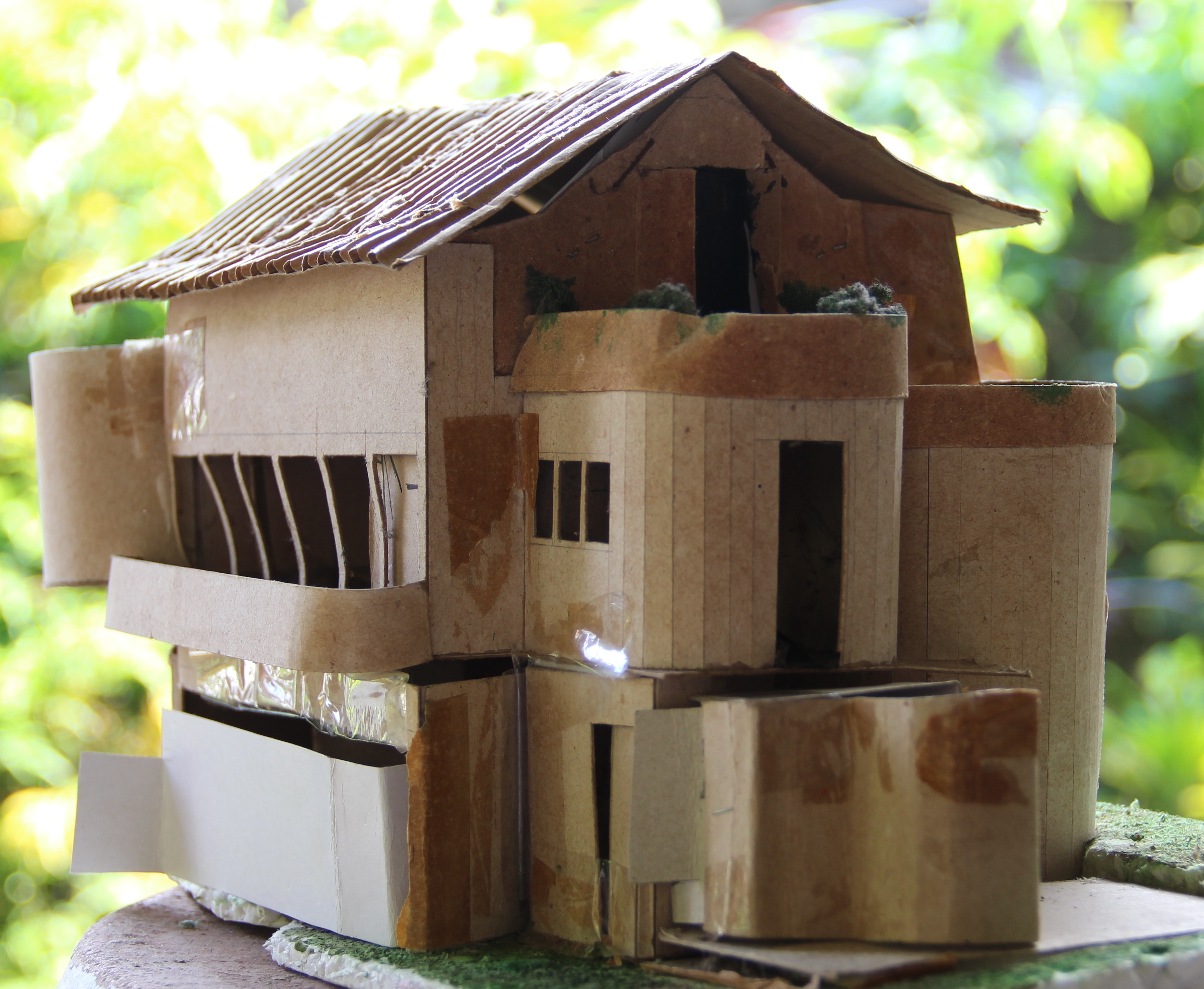 model for artist segar house .Probably the last house architectured by Minnette. Model done by Minnette's assistant Ms Pasqual